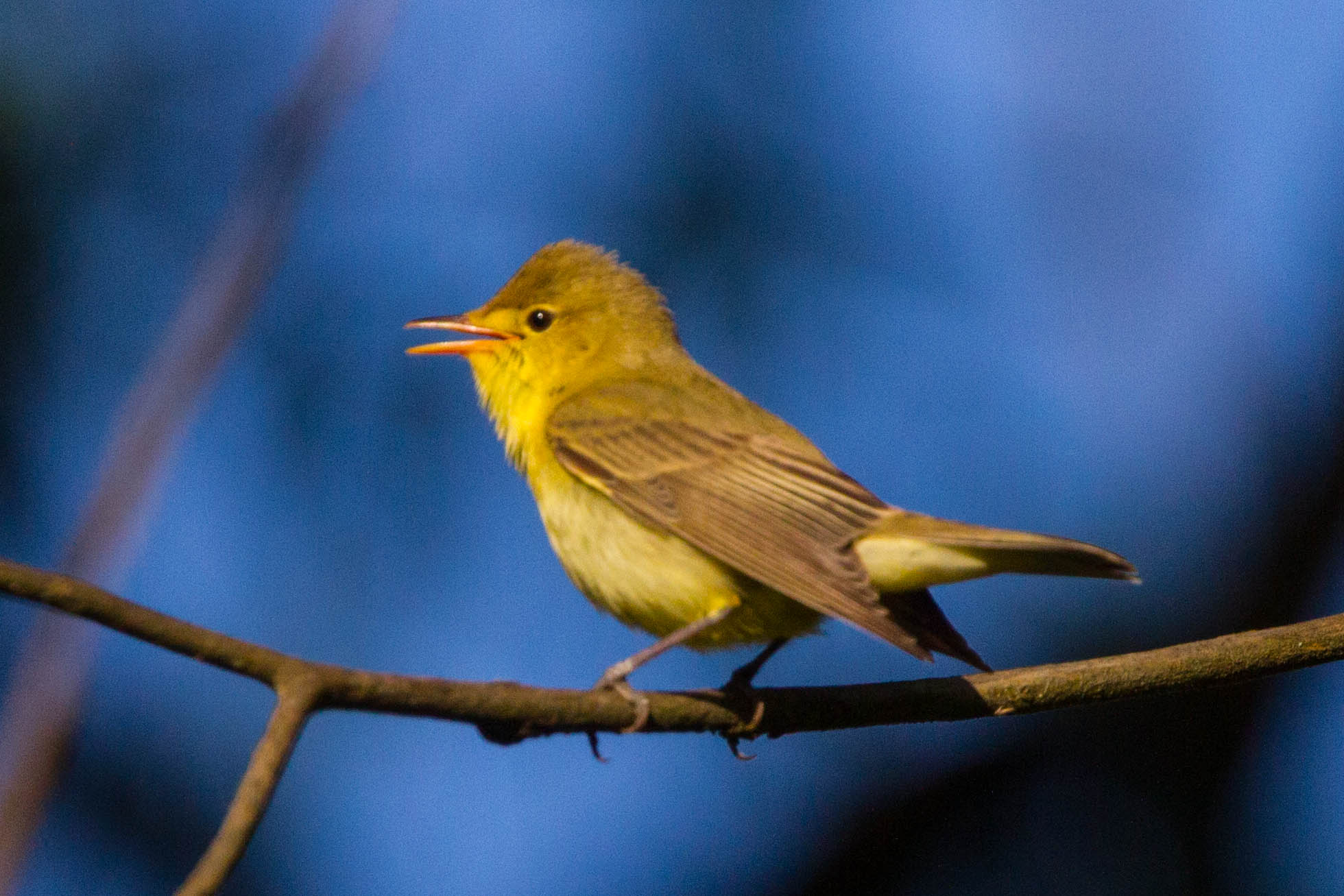 Icterine Warbler Hippolais icterina, Belarus